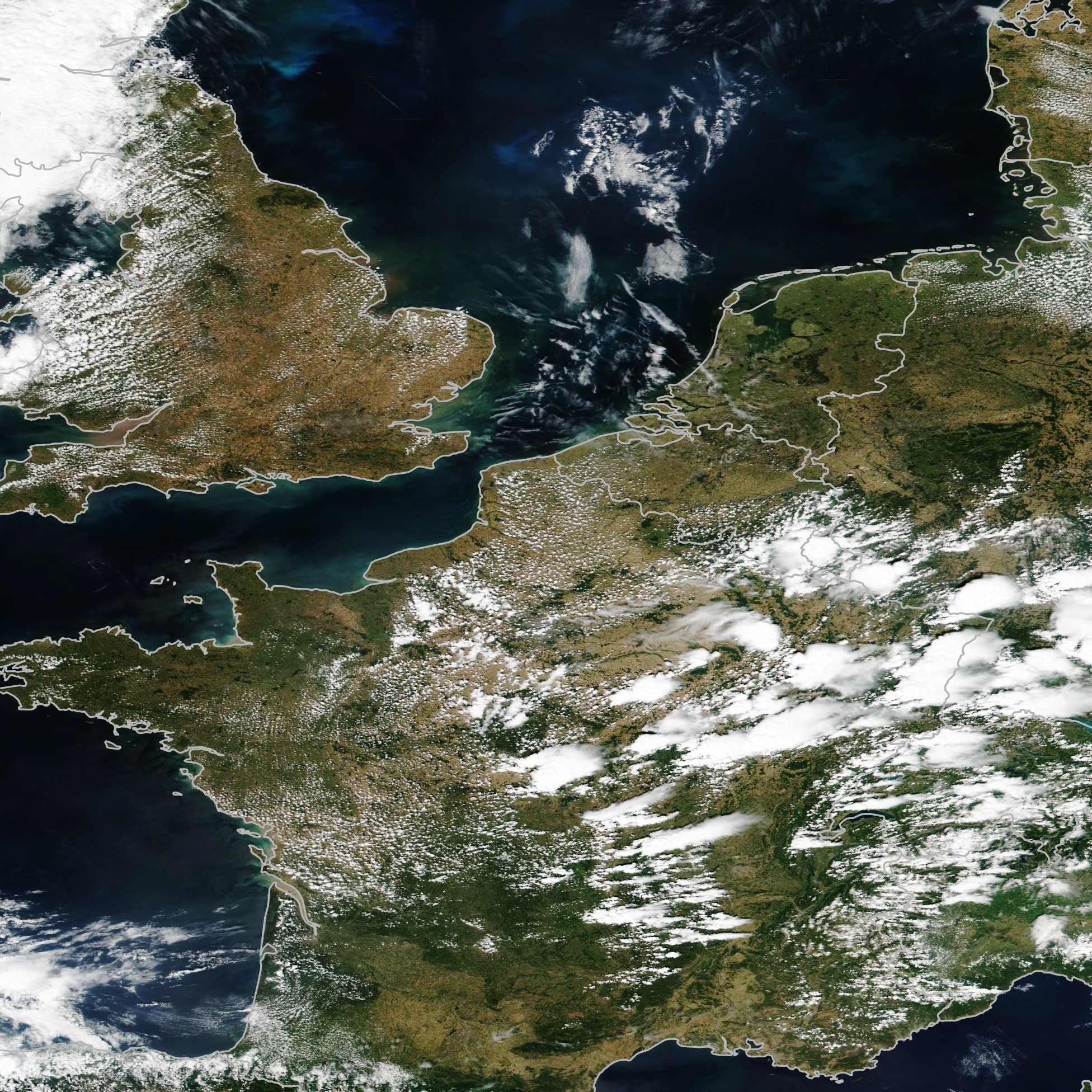 The image shows the burned landscape of the United Kingdom and northwestern Europe as of 15 July 2018. Image acquired by the Moderate Resolution Imaging Spectroradiometer (MODIS) on NASA’s Terra satellite.